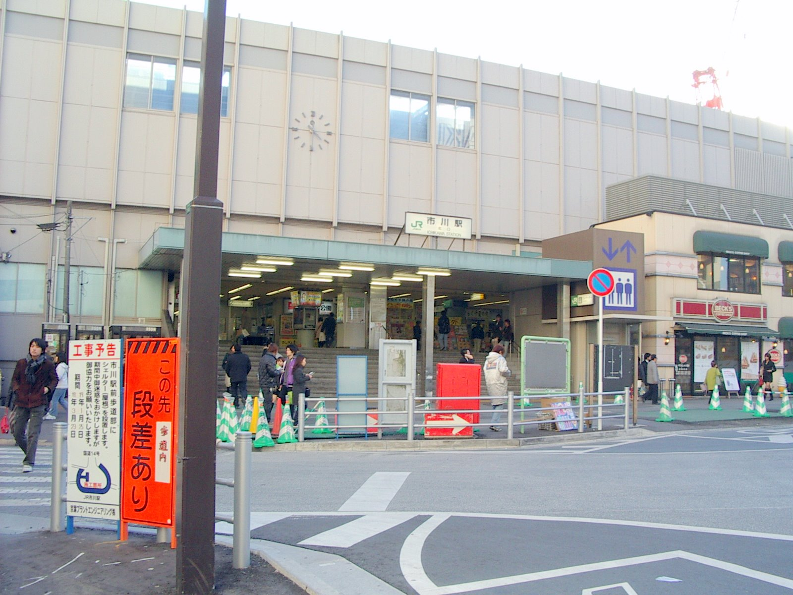 North Exit of JR East Ichikawa Station